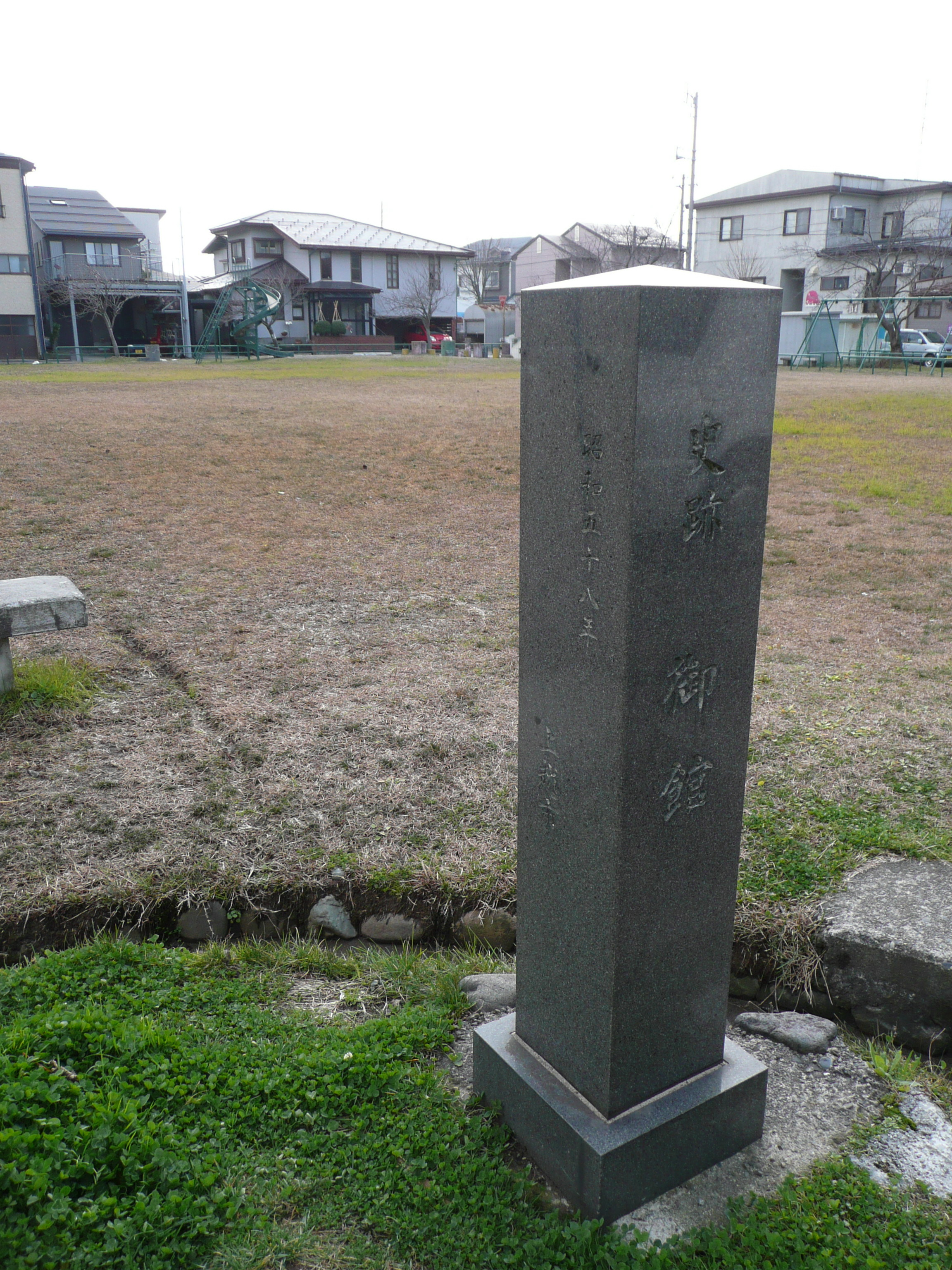 御館の石碑